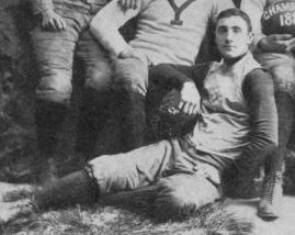 Doctor and football coach William Charles Wurtenburg in the 1888 Yale football portrait.